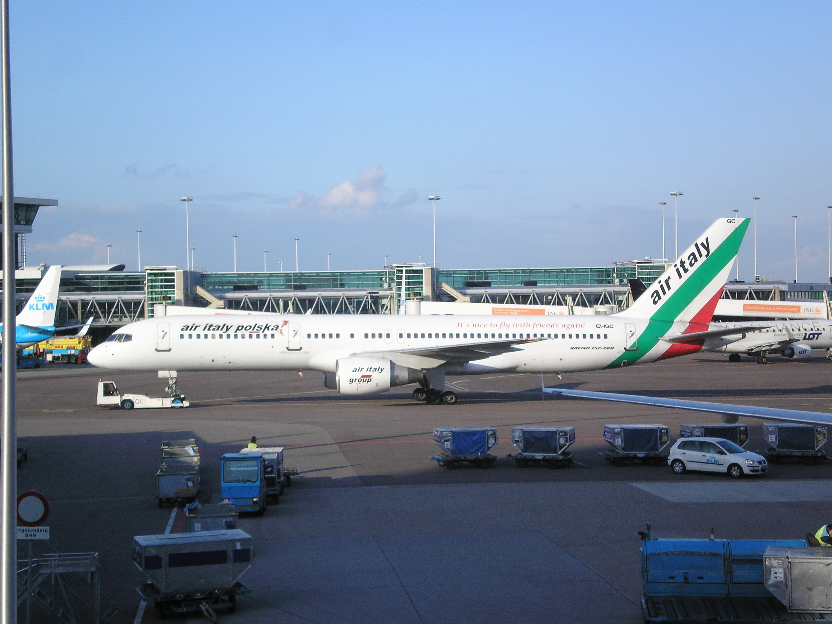 Boeing 757-200 of Air Italy Polska in Schiphol Airport, Amsterdam, The Nederlands.